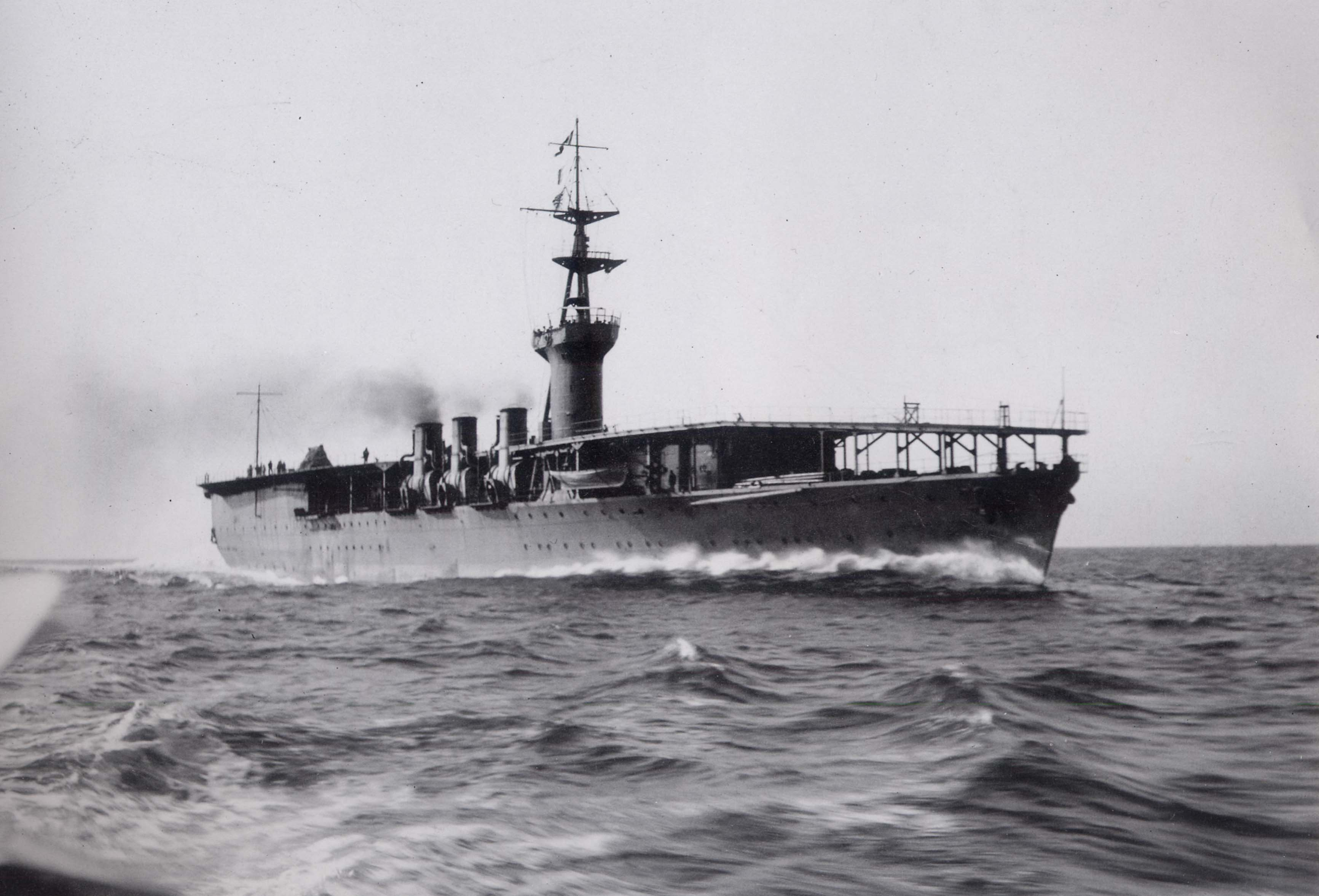 鳳翔 日本海軍航空母艦 千葉県館山沖標柱間にて全力公試中の写真。Imperial Japanese Navy aircraft carrier Hōshō conducts initial full power trials in Tateyama Bay, Japan.